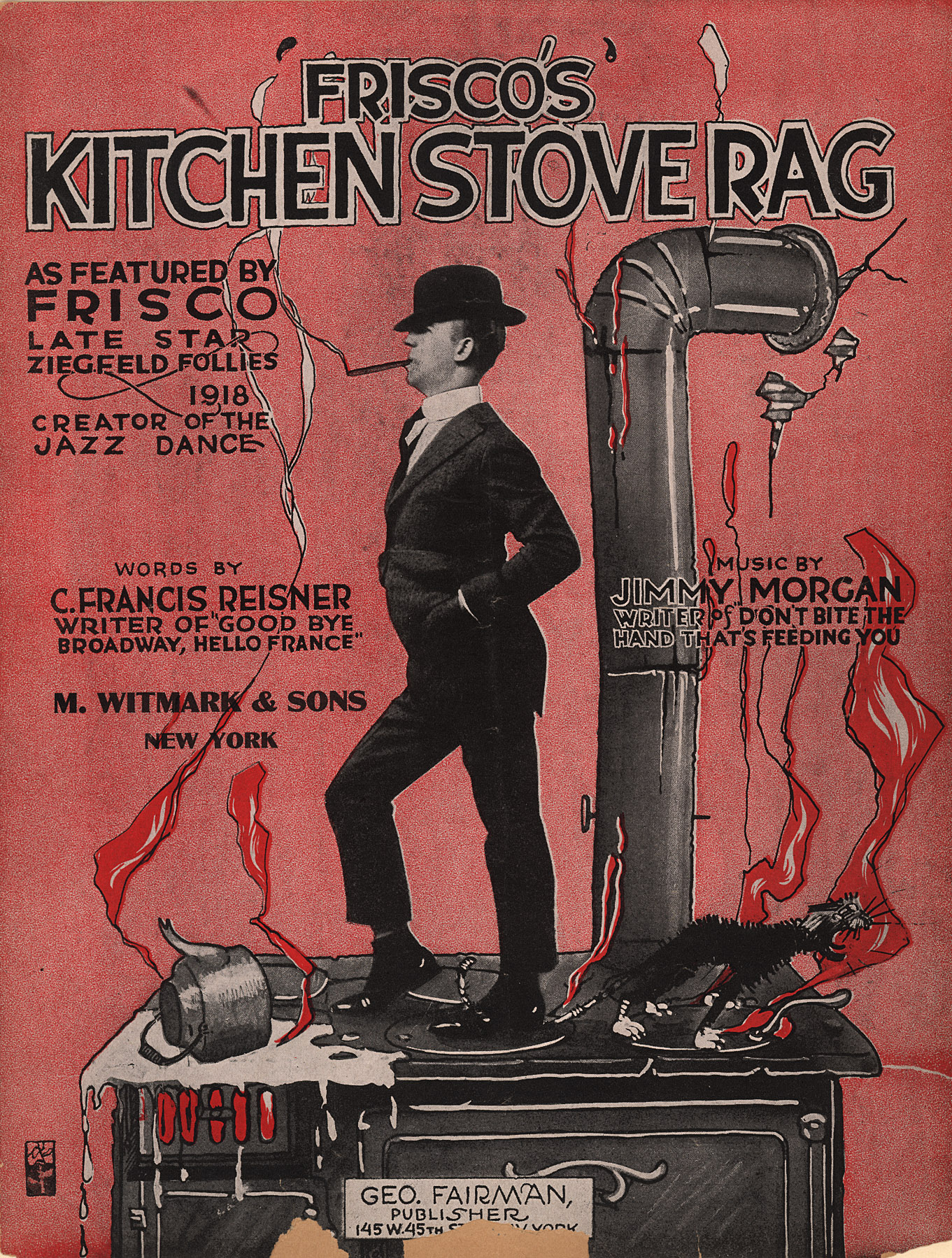 "Frisco's Kitchen Stove Rag". Sheet music cover, with cartoon depicting vaudeville "jazz dancer" Joe Frisco dancing atop a stove.